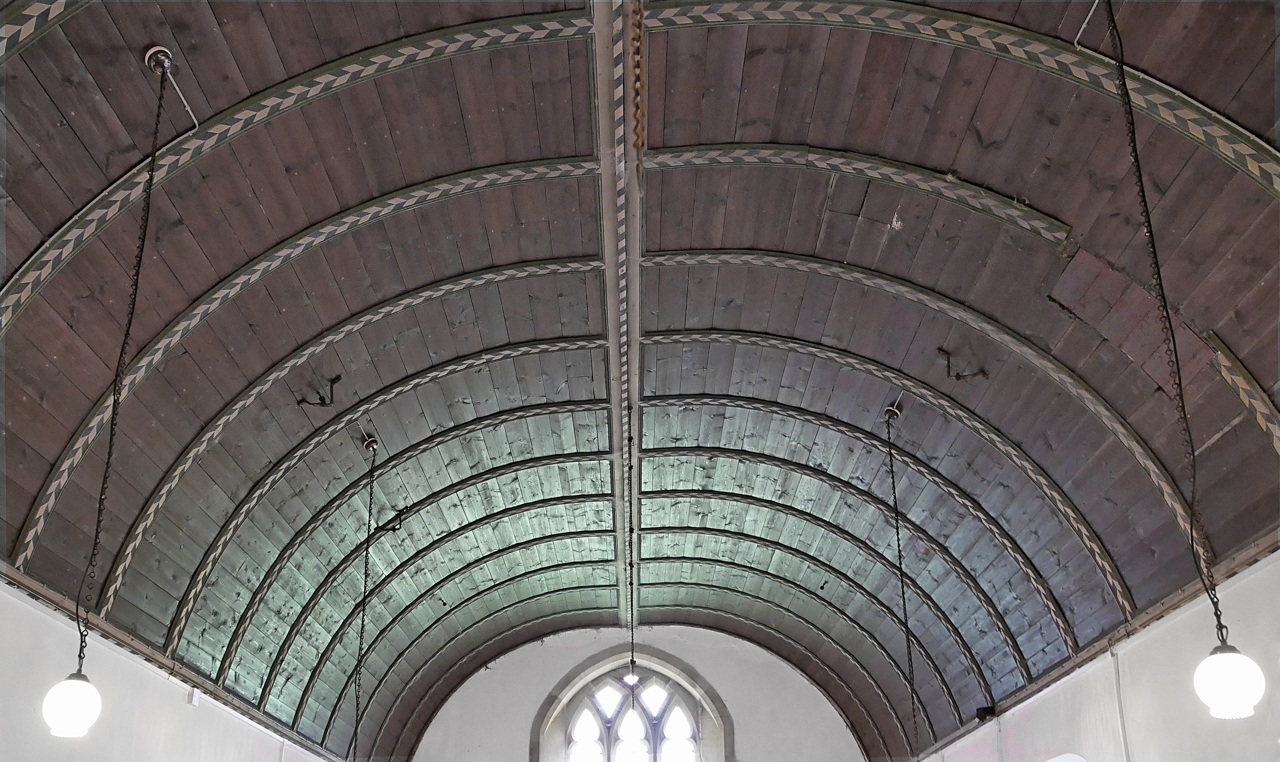 St Nicholas church, Bransdale, Norh Yorkshire Moors